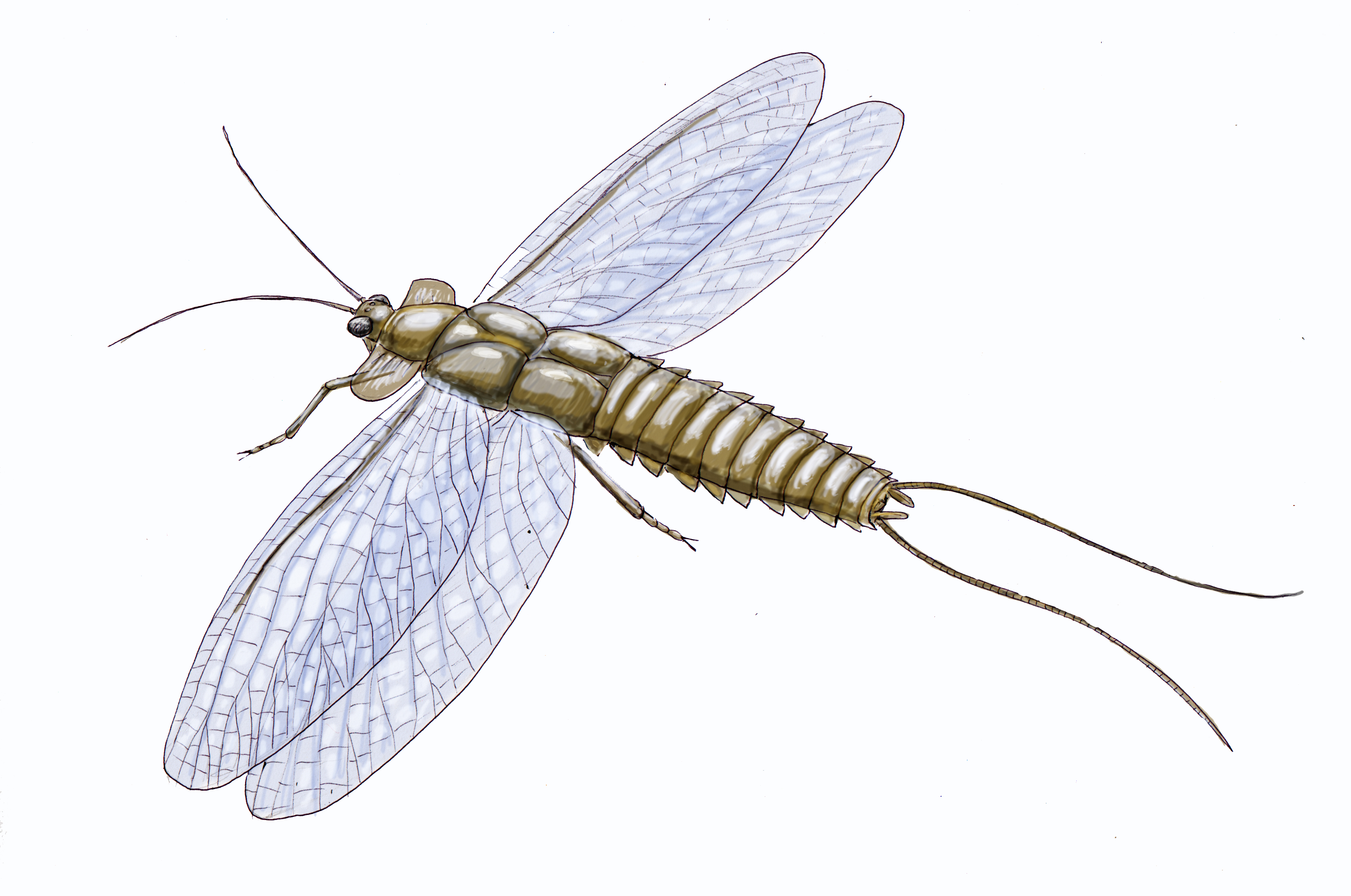 Mazothairos enormis, giant Palaeodictyoptera from Upper Carboniferous strata of Mazon Creek, Illinois.